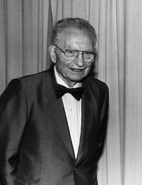 Paul A. Samuelson, an American economist. He was awarded The Nobel Prize in Economics, in 1970.